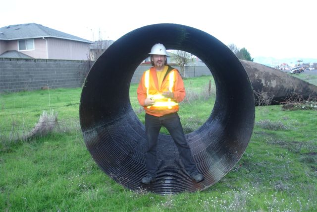 You can see just how big the culvert pipe is when one of crew members stands in it. This pipe will replace a piece that was damaged by storm water.